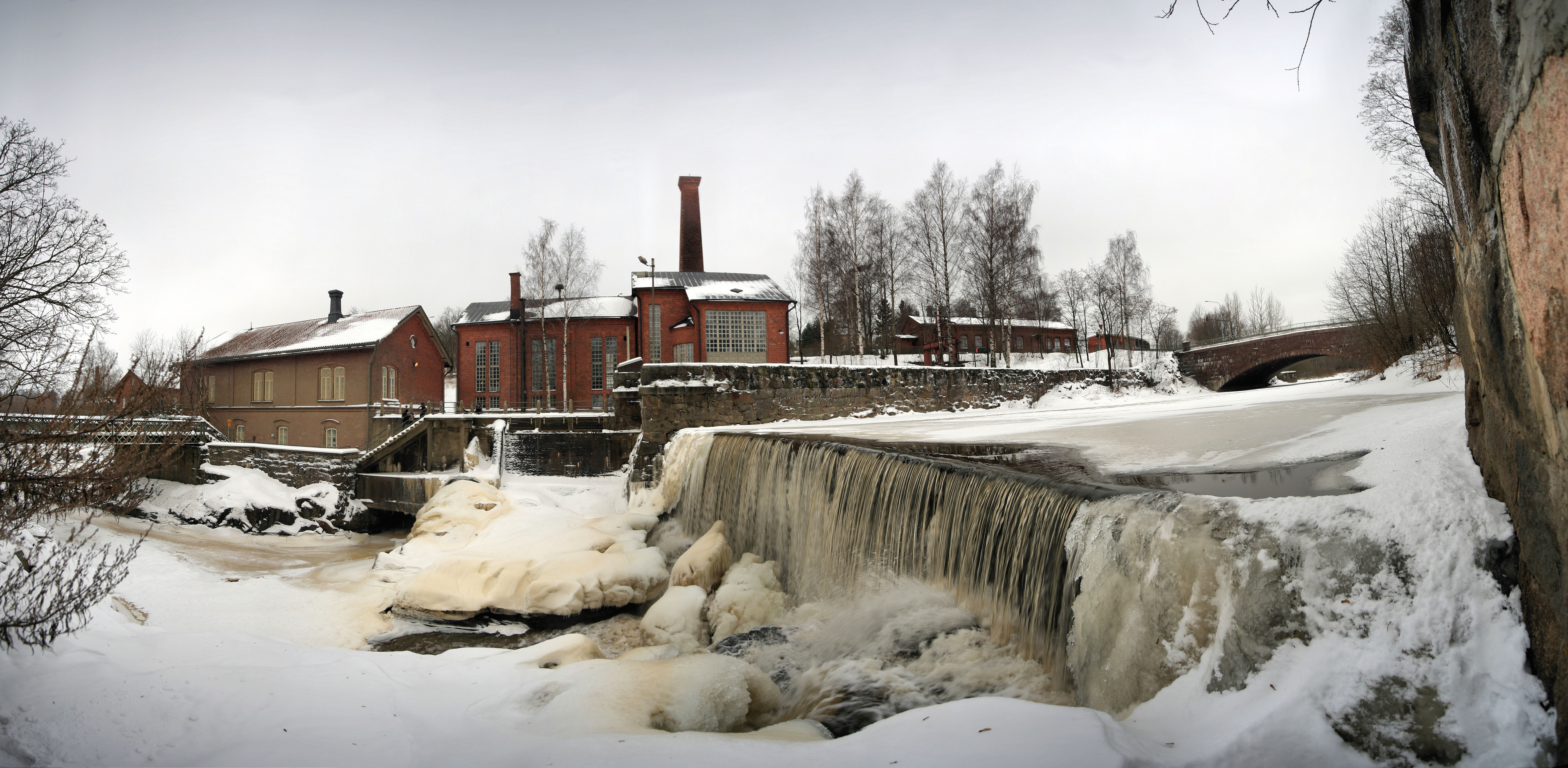 A weir in Vantaanjoki river in Vanhakaupunki, Helsinki, Finland. The picture is a panorama combined of 14 photos taken with a wide-angle lens.